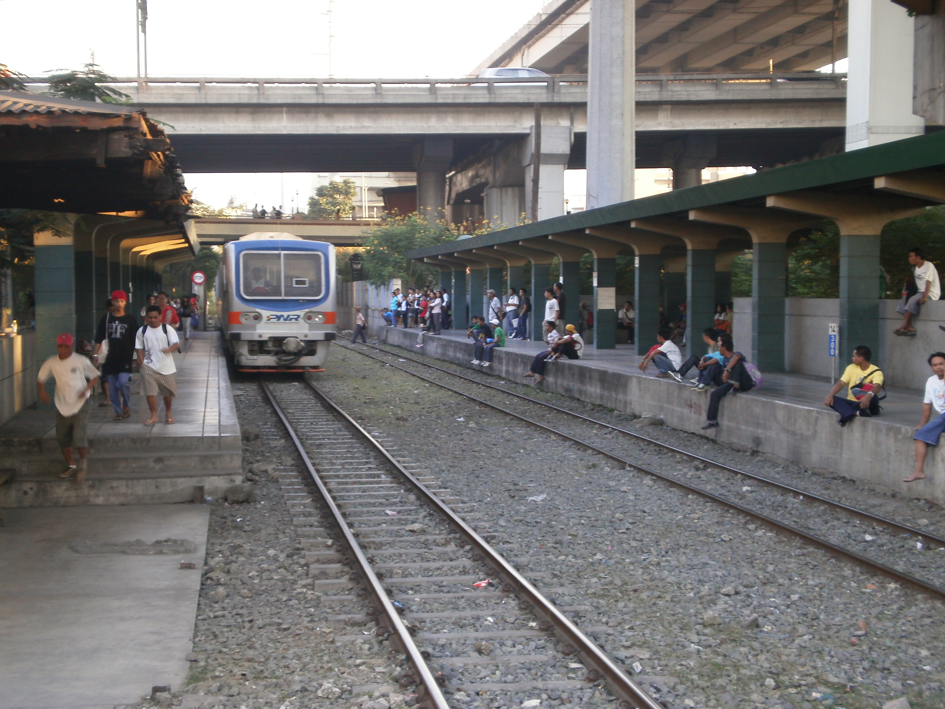 PNR diesel multiple unit arriving at EDSA station.